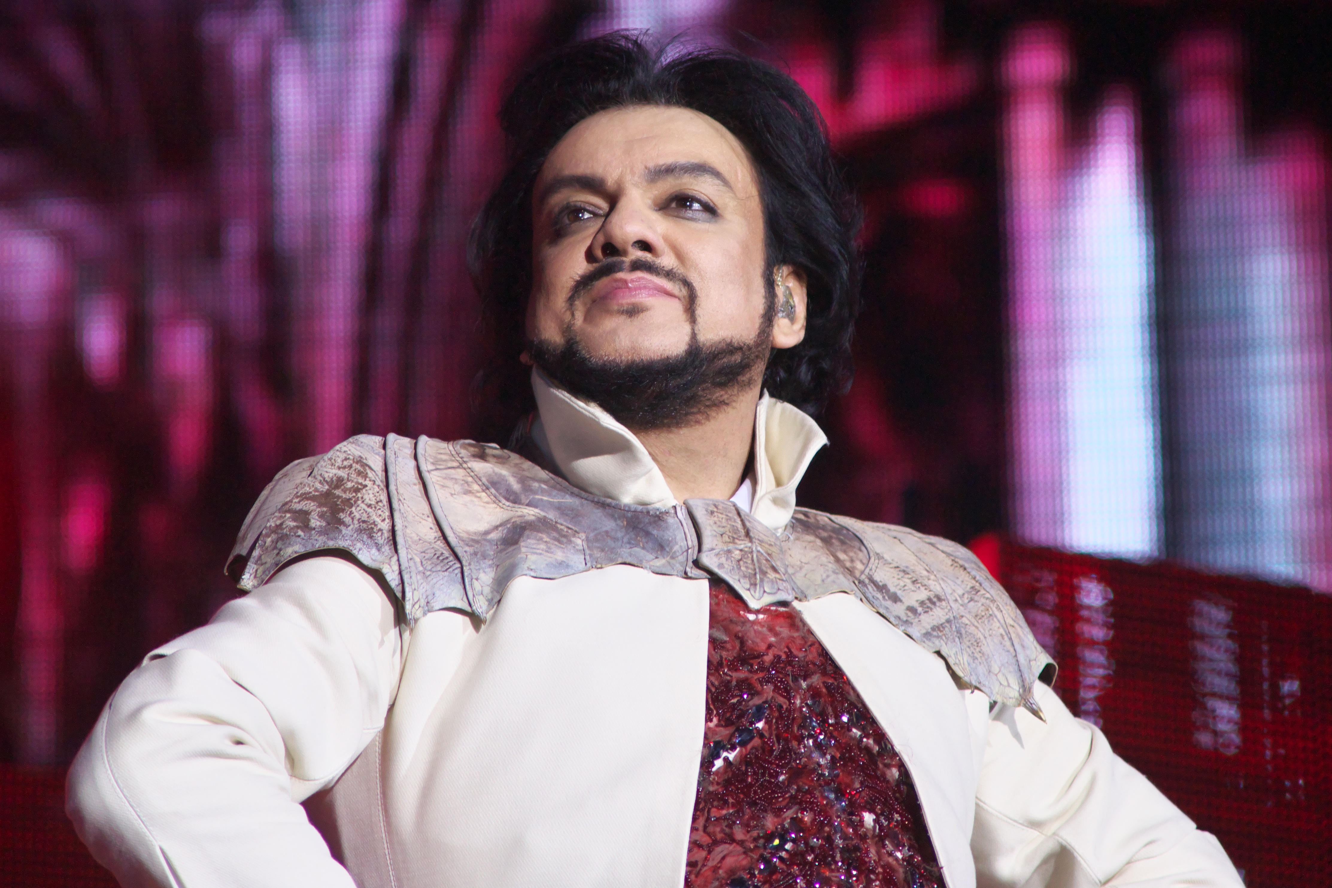 Russian pop-singer Philipp Kirkorov on "Slavic Bazaar" in Vitebsk at 2014